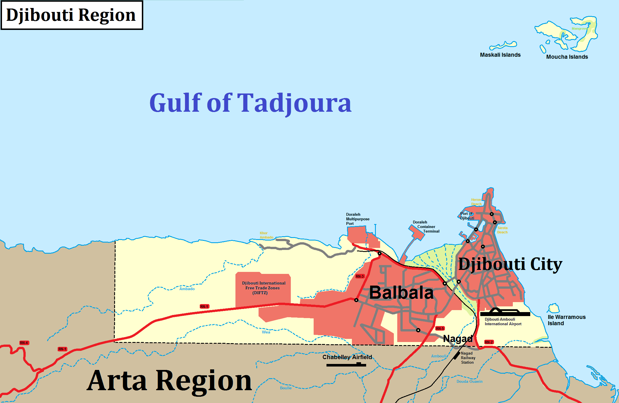 Map of Djibouti Region in English